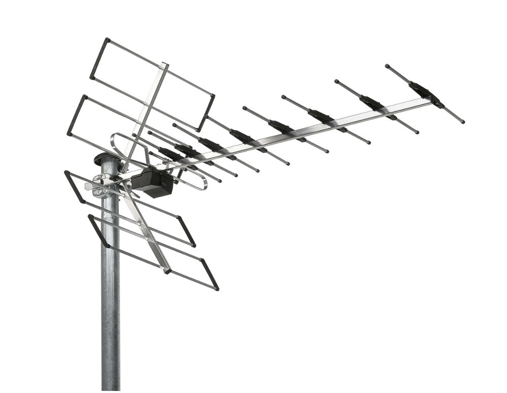 آنتن شاخه‌ای بزرگ